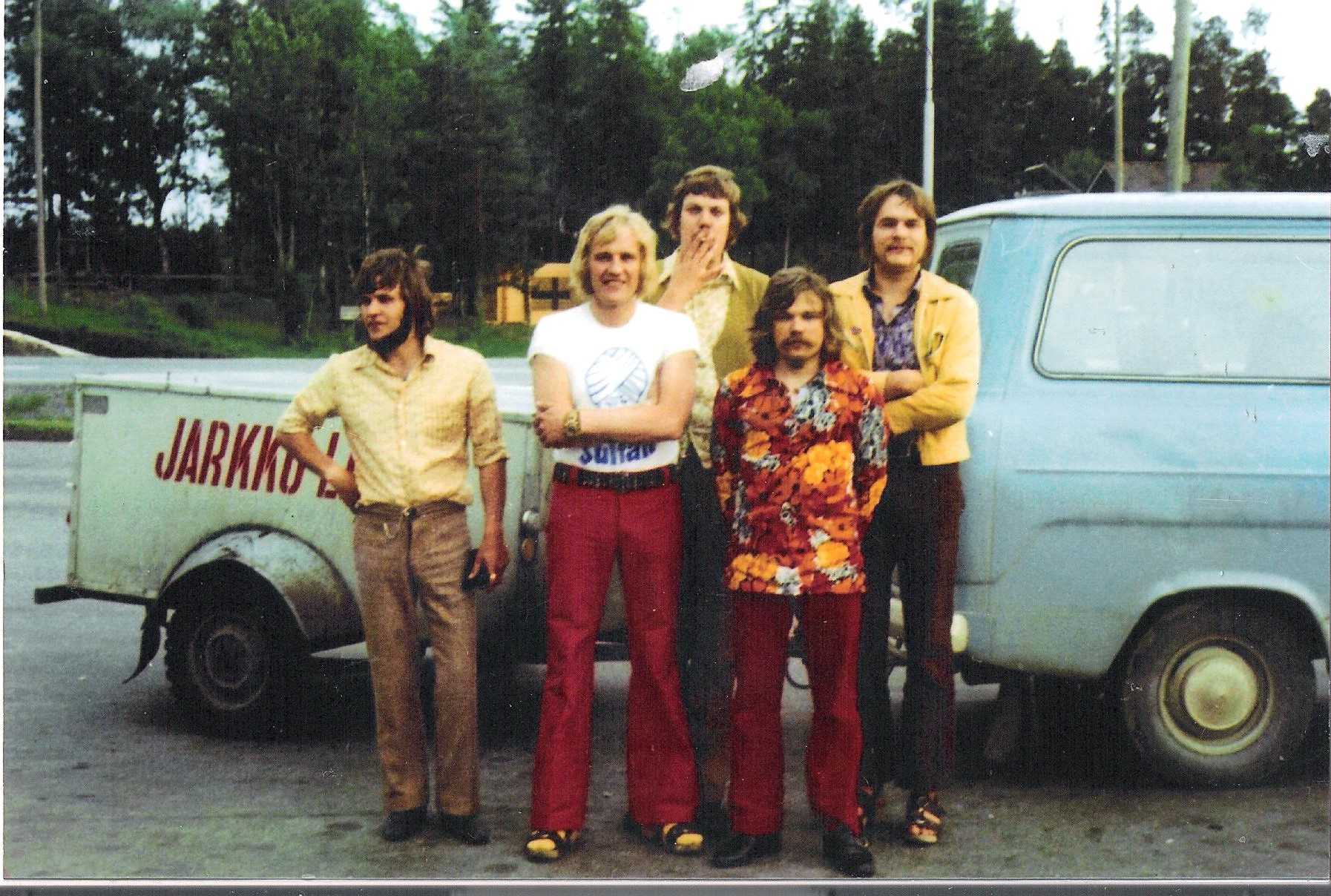 Jarrko and his band